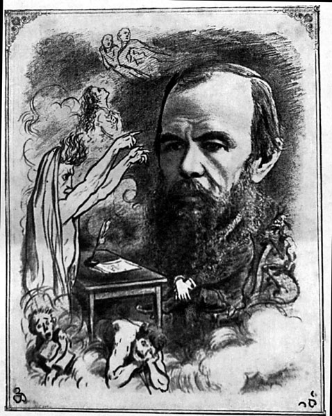 Dostoevsky's characature.